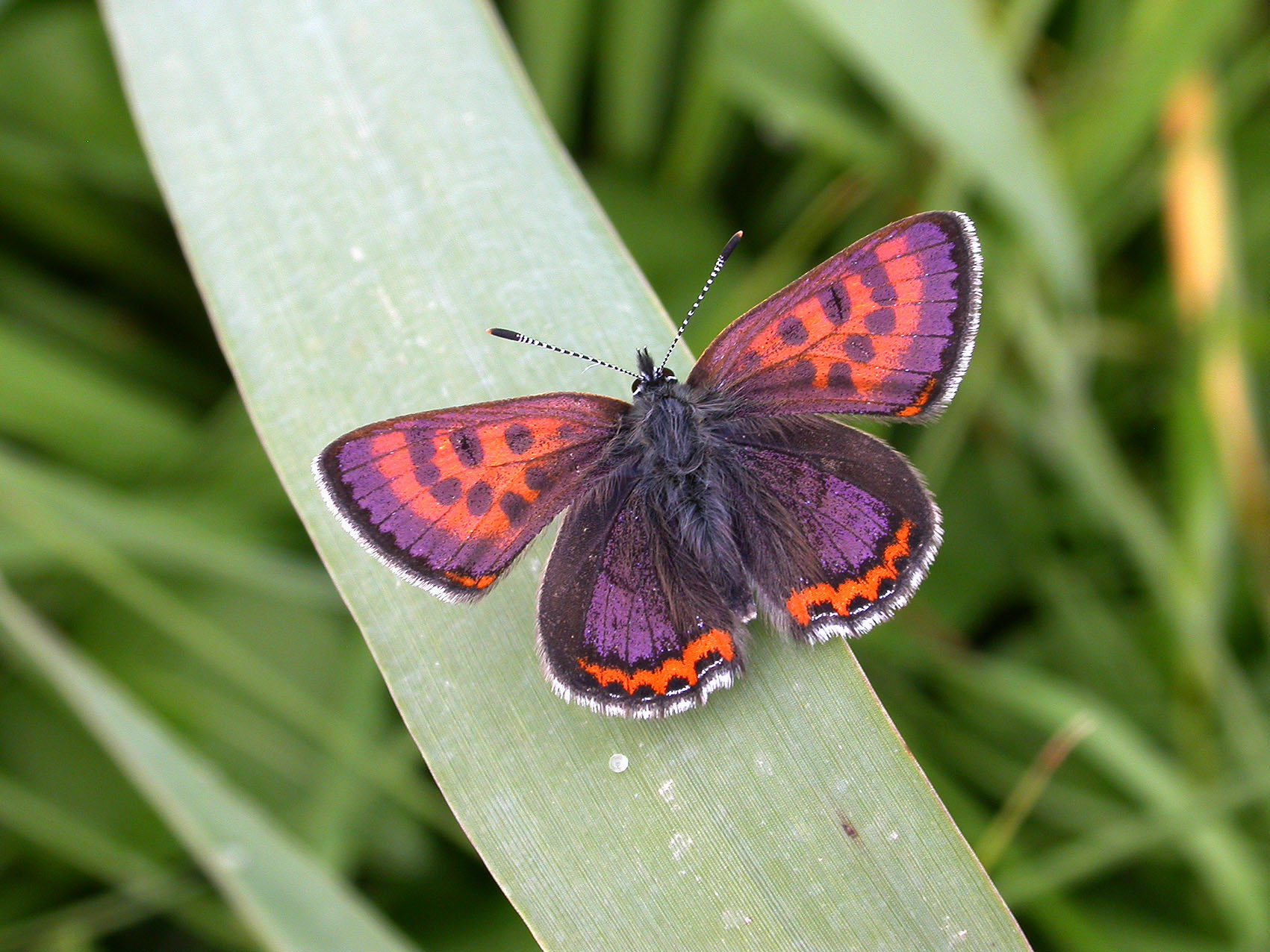 The Violet Copper (Lycaena helle) is a butterfly species listed in Annex II of the EU Habitats Directive.